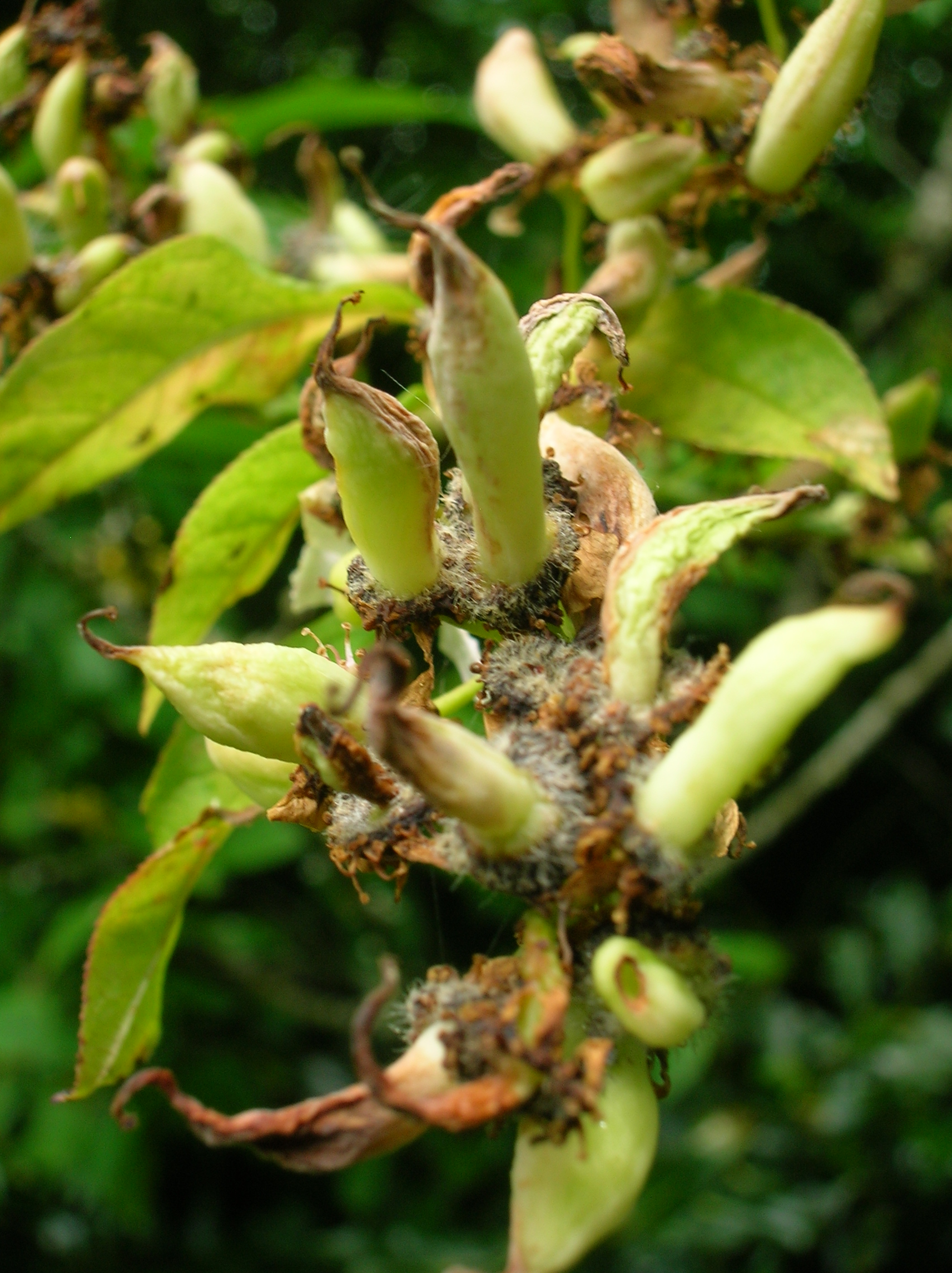 Pocket Plum galls on Bird Cherry at Dalgarven Mill, North Ayrshire, Scotland